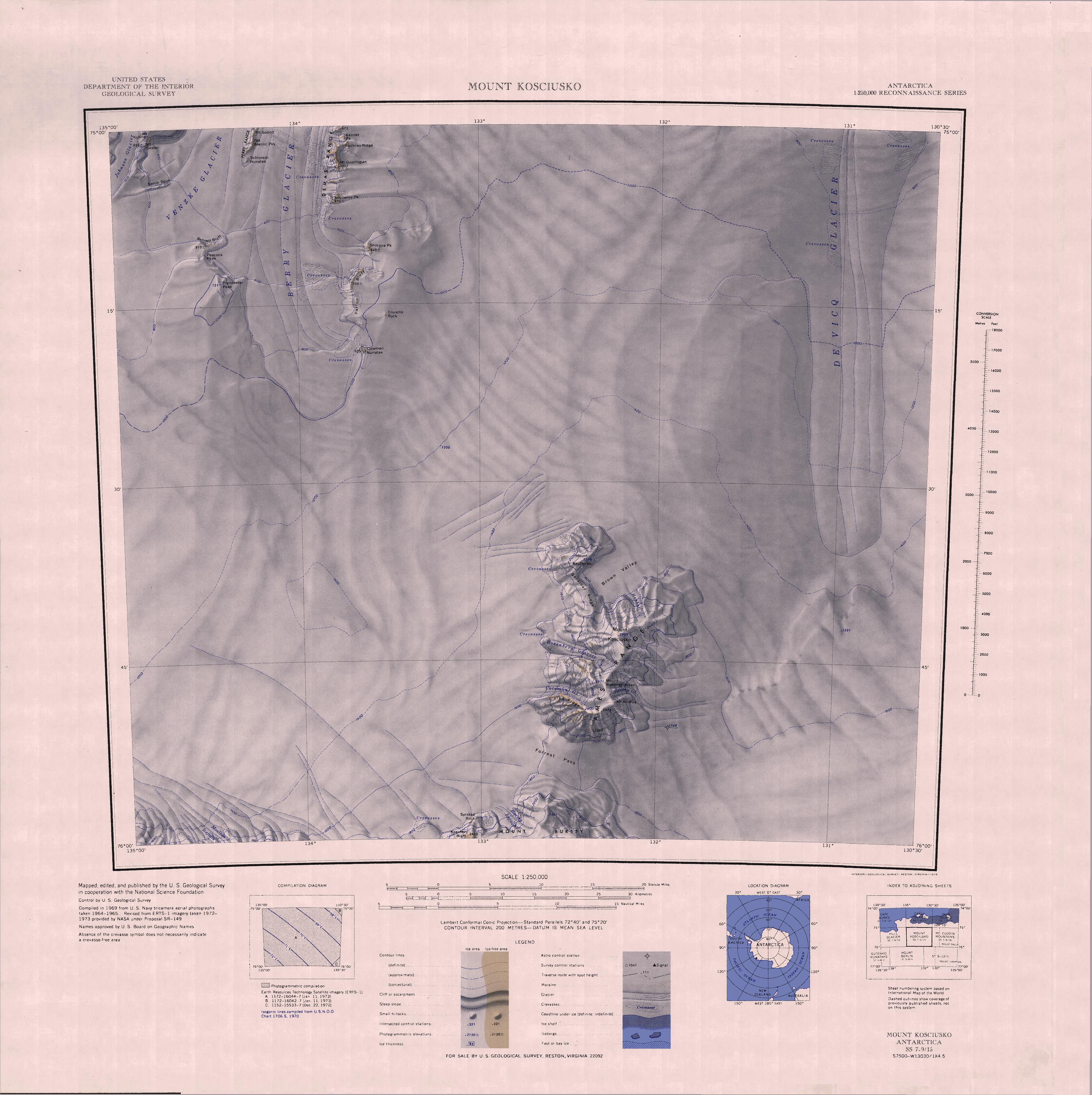 Map of Antarctica by the United States Antarctic Resource Center of the US Geological Society.